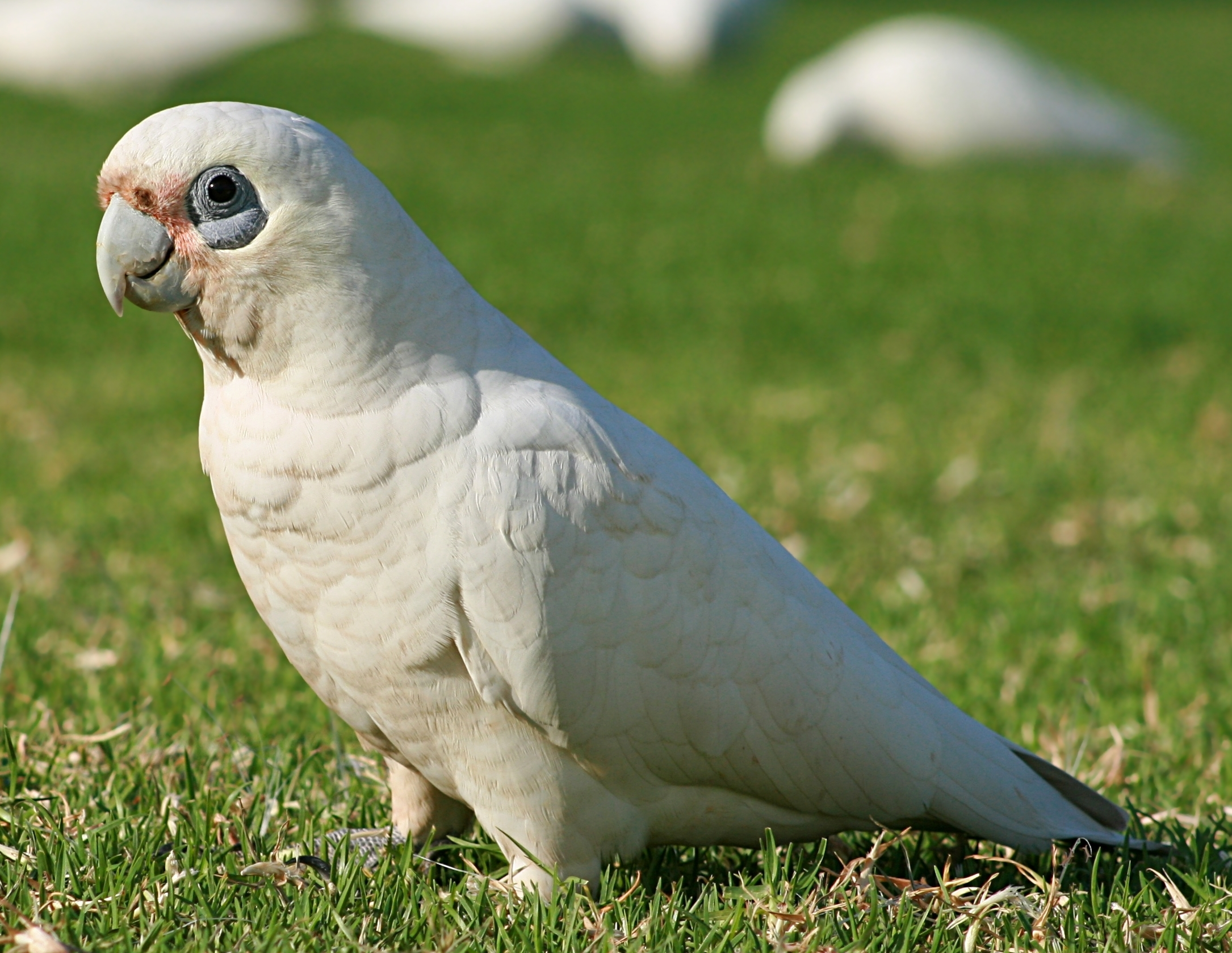 Little corella (Cacatua sanguinea) eating grass seeds in Melrose Park, Sydney, Australia.